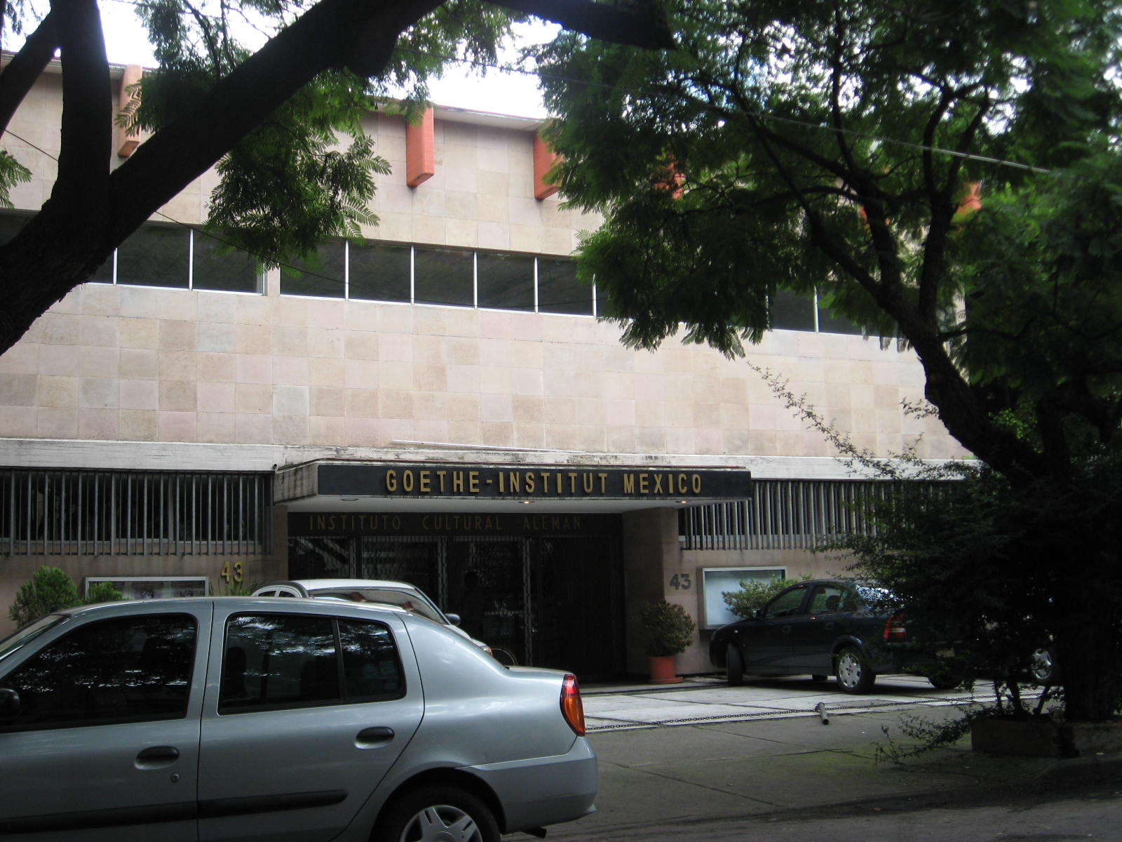 Goethe Institue on Tonala Street in Colonia Roma in Mexico City